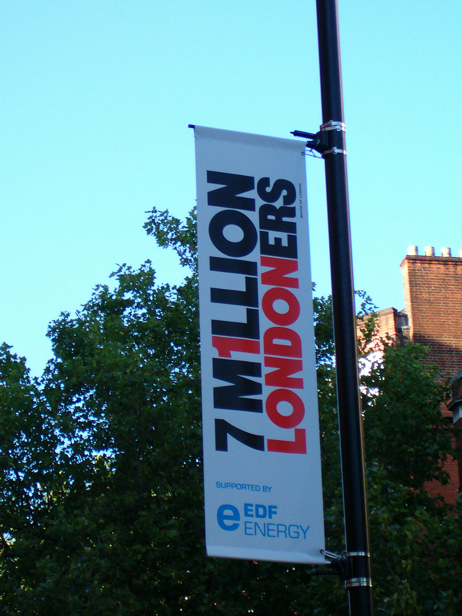 A poster celebrating the multi-cultural nature of London, one of many erected by the Mayor of London in the wake of the 7 July 2005 London bombings. (C) Gerry Lynch, 2005.